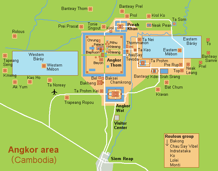 Map (rough) of Angkor Wat, Cambodja.